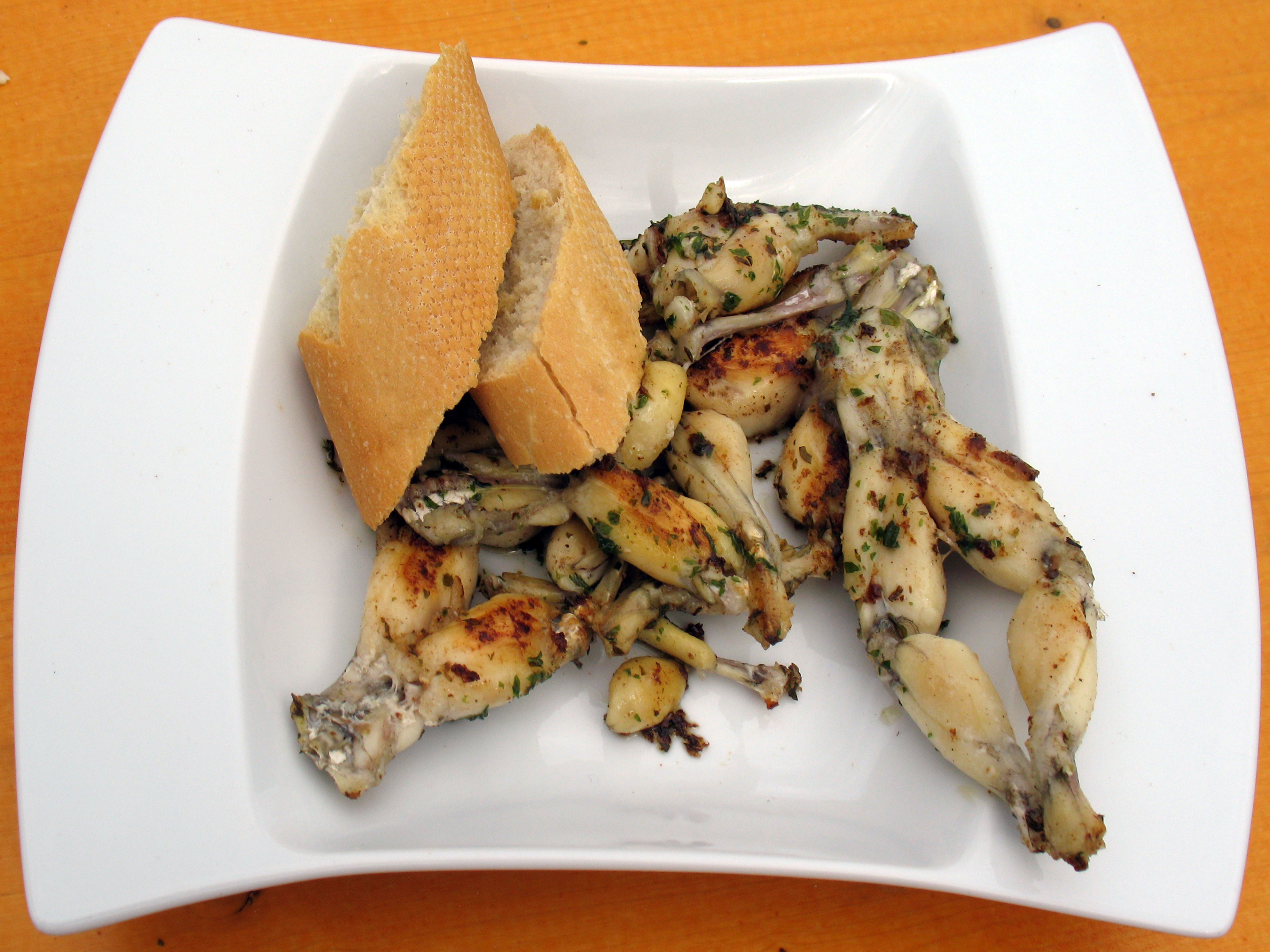 Frog legs on the German-French Festival in Berlin 2012